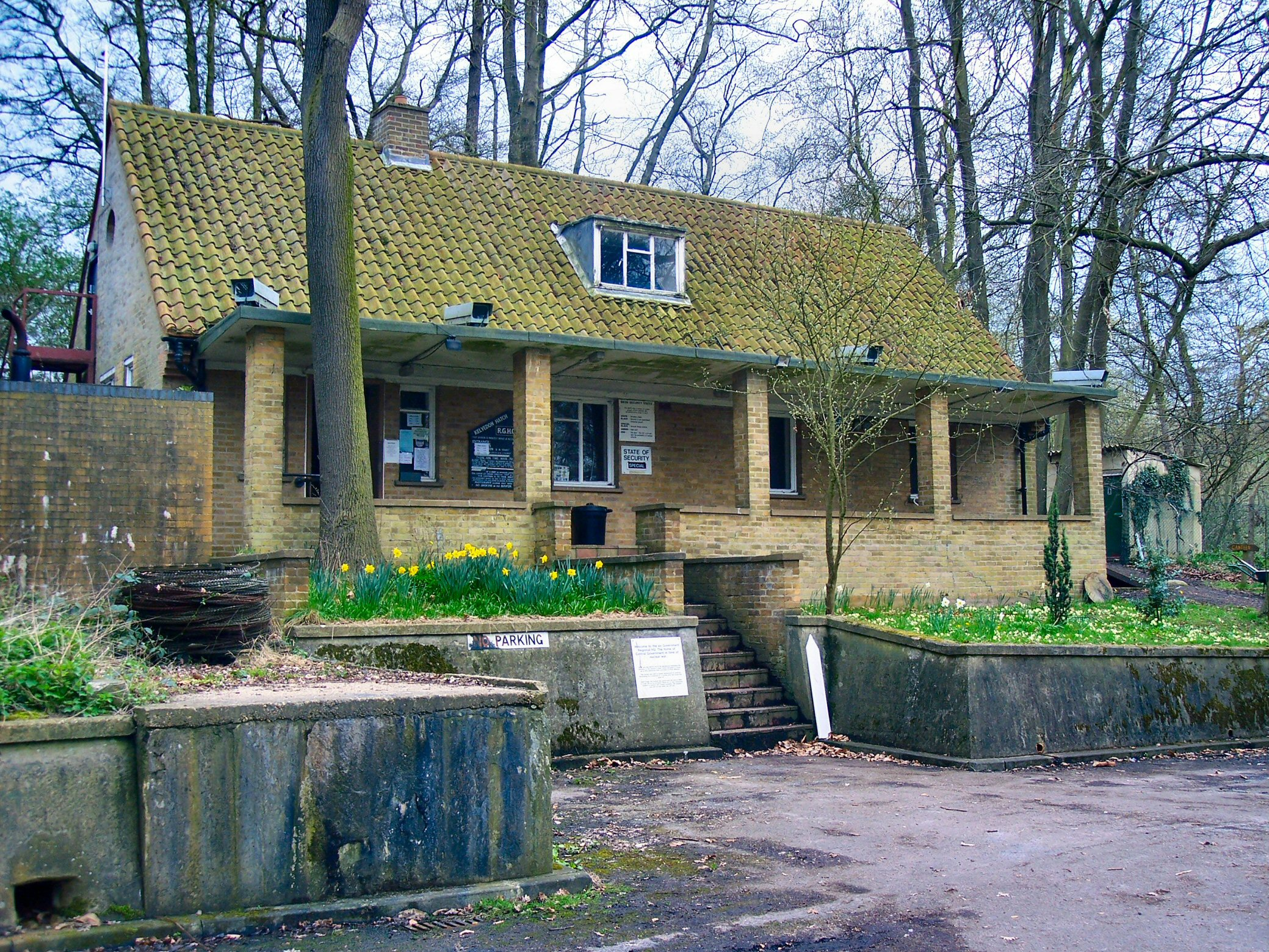 Entrance to Kelvedon Hatch Secret Nuclear Bunker, Essex, England.